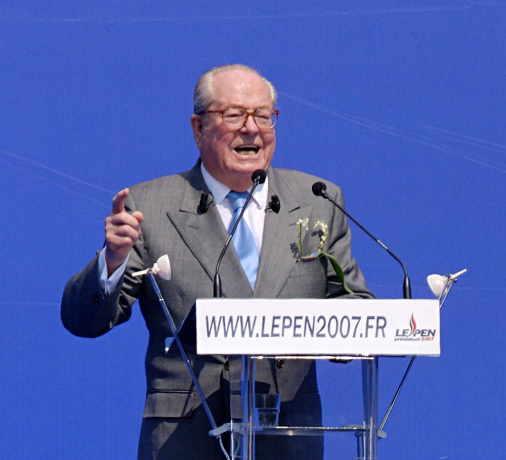 Jean-Marie Le Pen speaking at his National Front party's annual tribute to Joan of Arc in Paris.